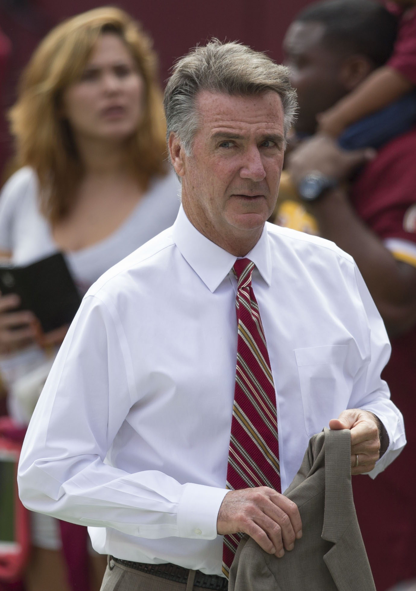 Dolphins at Redskins 9/13/15